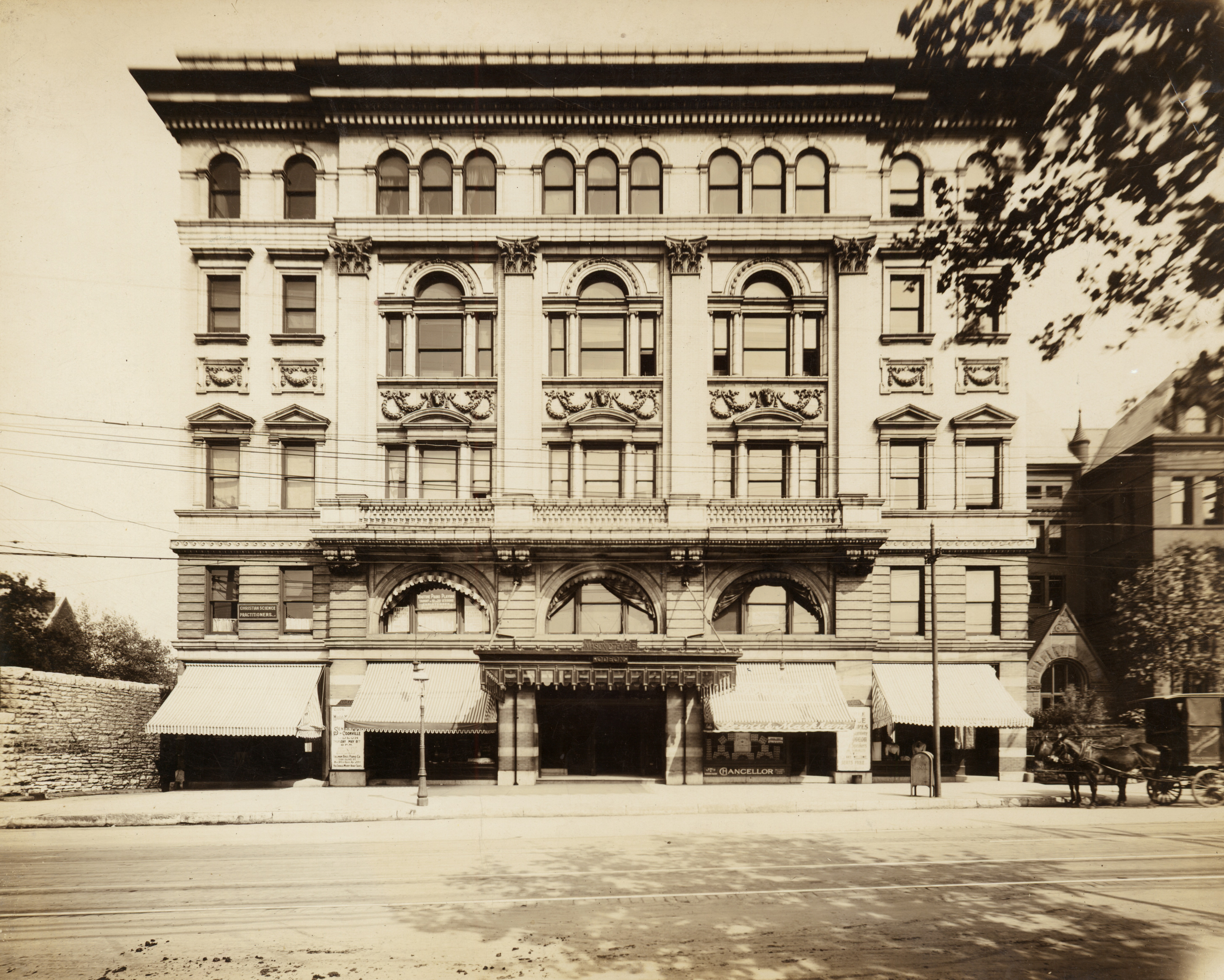 Title: Odeon Theater and Masonic Temple, east side of Grand Avenue near Finney Avenue. 1040 N. Grand Avenue. Architect: William Albert Swasey